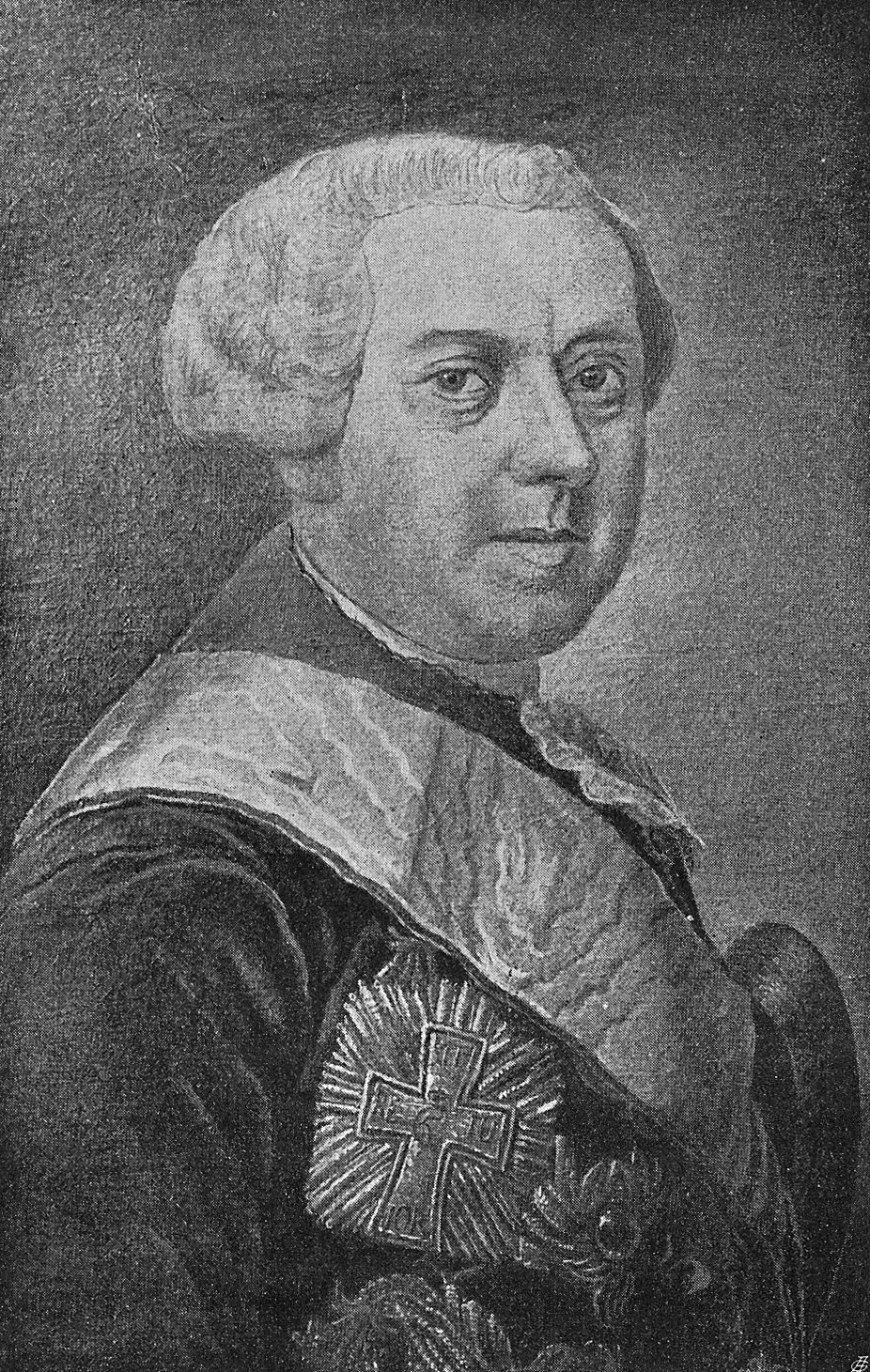 Christian Conrad Danneskiold-Laurvig (1723-1783)